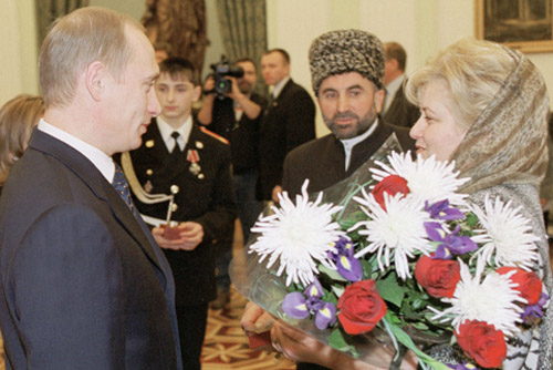 THE KREMLIN, MOSCOW. Members of the Chechen family of Tashukhadzhiyevs being decorated for their heroic behaviour in a clash with criminals. President Putin with Raisa Tashikhadzhiyeva.